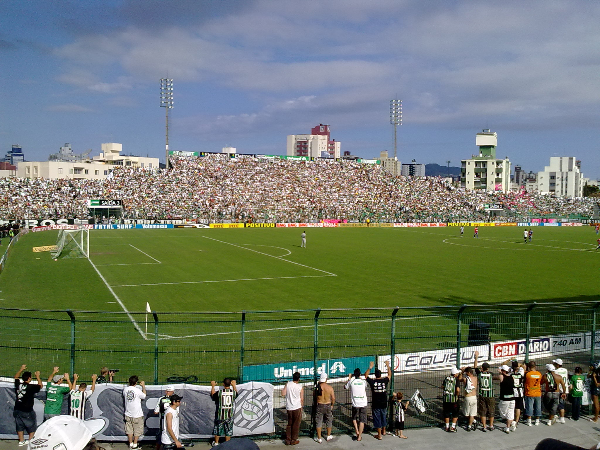 The Estádio Orlando Scarpelli is a football stadium inaugurated on May 27, 1961 in Estreito neighborhood, Florianópolis, Santa Catarina, with a maximum capacity of 19,908 people. The stadium is owned by Figueirense FC. Its formal name honors Orlando Scarpelli, who was Figueirense's president, and donated the groundplot where the stadium was built.